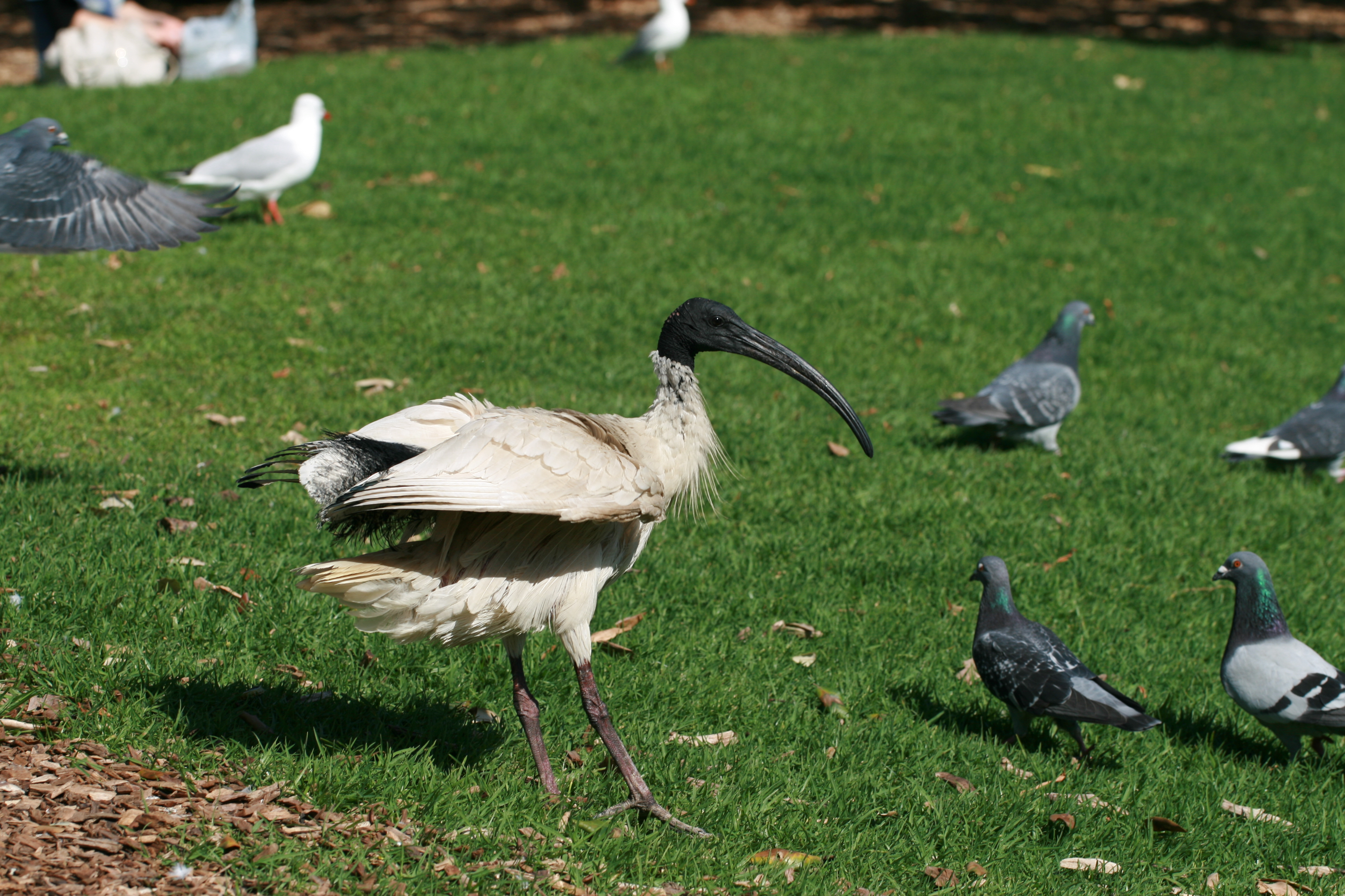 Australian White Ibis with pigeons and seagull in Victoria Park, Sydney, NSW, Australia.